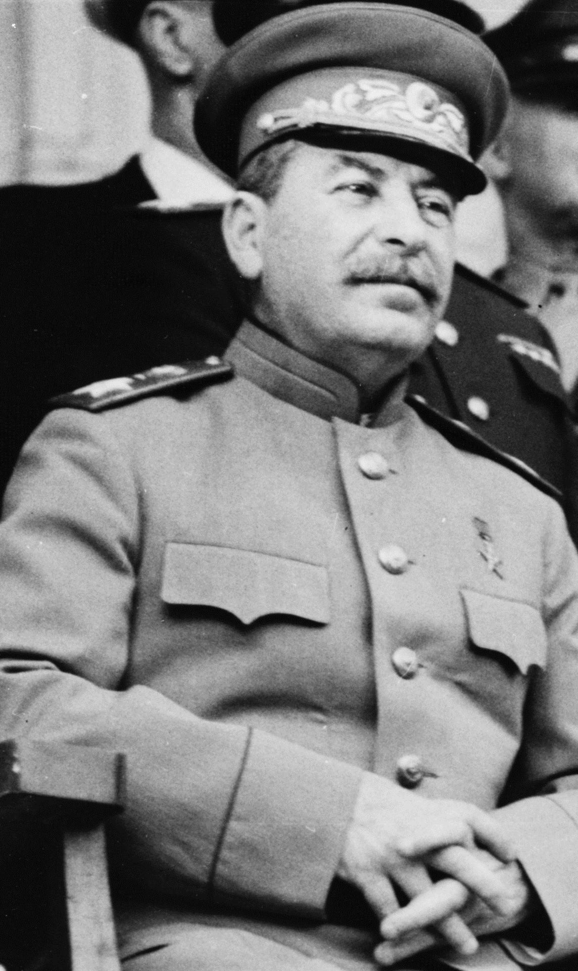 Soviet leader Joseph Stalin at the 1943 Tehran Conference.